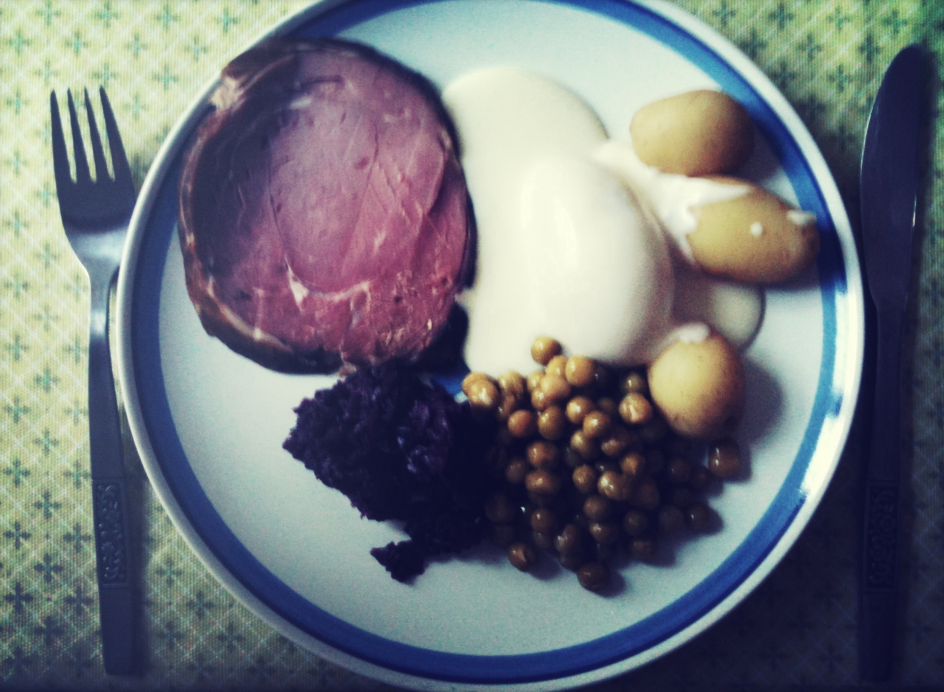 Hangikjöt (lit. "hung meat") is Icelandic smoked lamb or mutton, usually boiled and served either hot or cold in slices. As is shown here, it is traditionally served with potatoes in béchamel sauce and green peas.